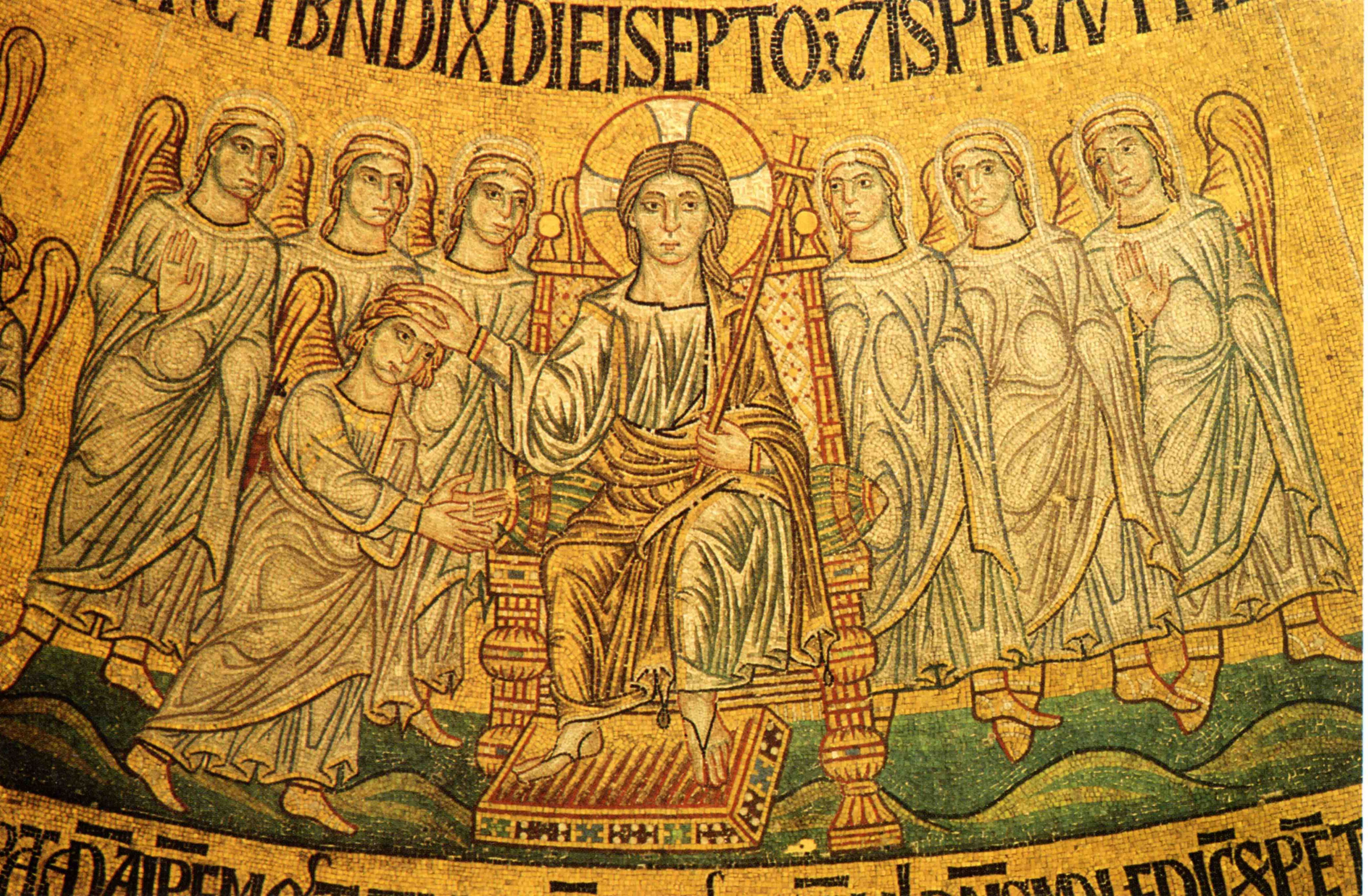 The blessing of the seventh day (Mosaic in Basilica di San Marco)